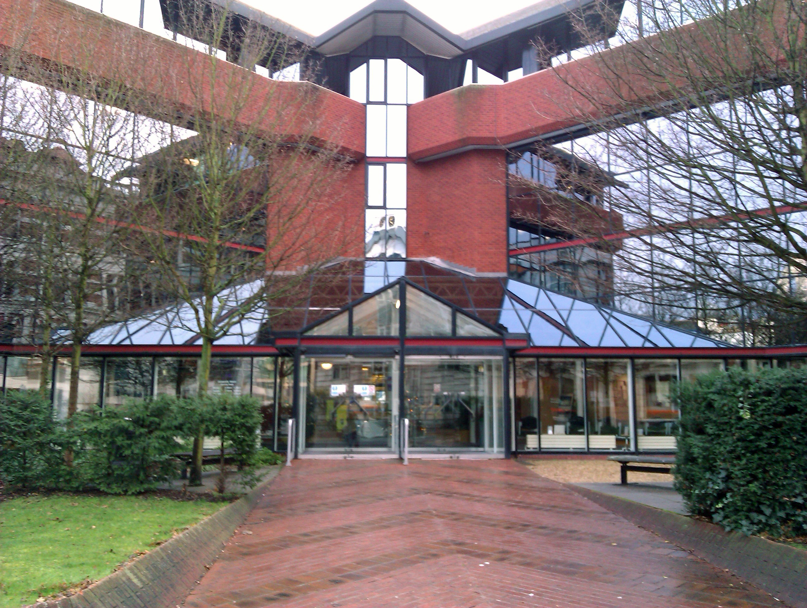 A building of the University of Portsmouth, on Winston Churchill Avenue, Portsmouth, Hampshire known as University House. Most of the University's administration work is carried out here.